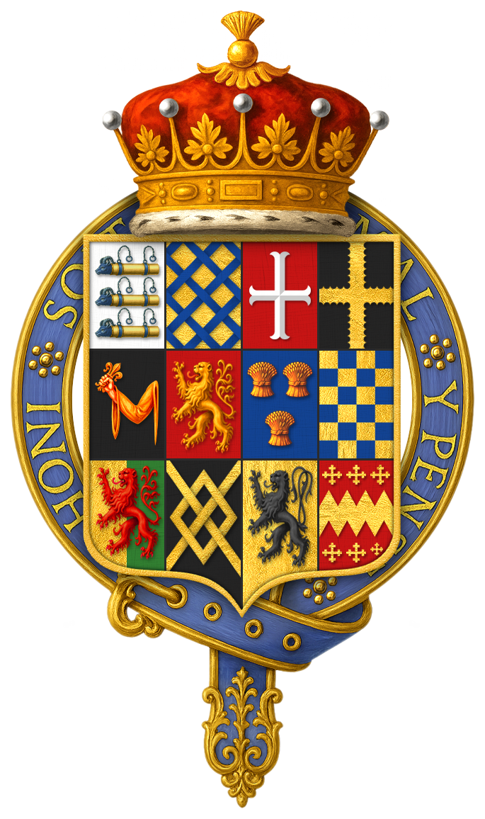 Coat of arms of Sir Montagu Bertie, 2nd Earl of Lindsey, KG Quarters: 1. Bertie; 2. Willoughby; 3. Beke; 4. Ufford 5. De Crec; 6. Aubigny; 7. Chester; 8. Warren 9. Marshal; 10. Maltravers; 11. Welles; 12. Dengaine